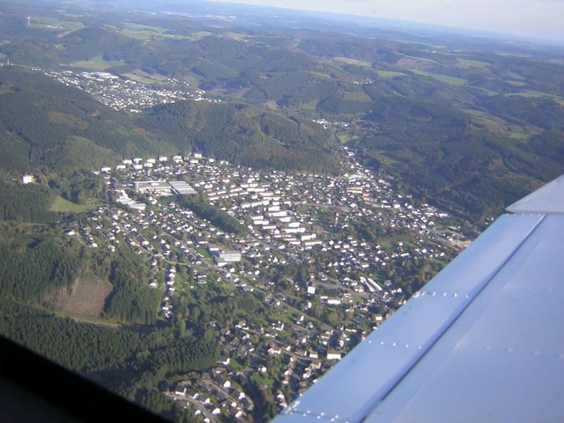 Aerial view - Bergneustadt - Stadtwald Author This picture was made available kindly by Arthur Kraft - for Wikipedia* Licence GNU FDL and CC-by-SA